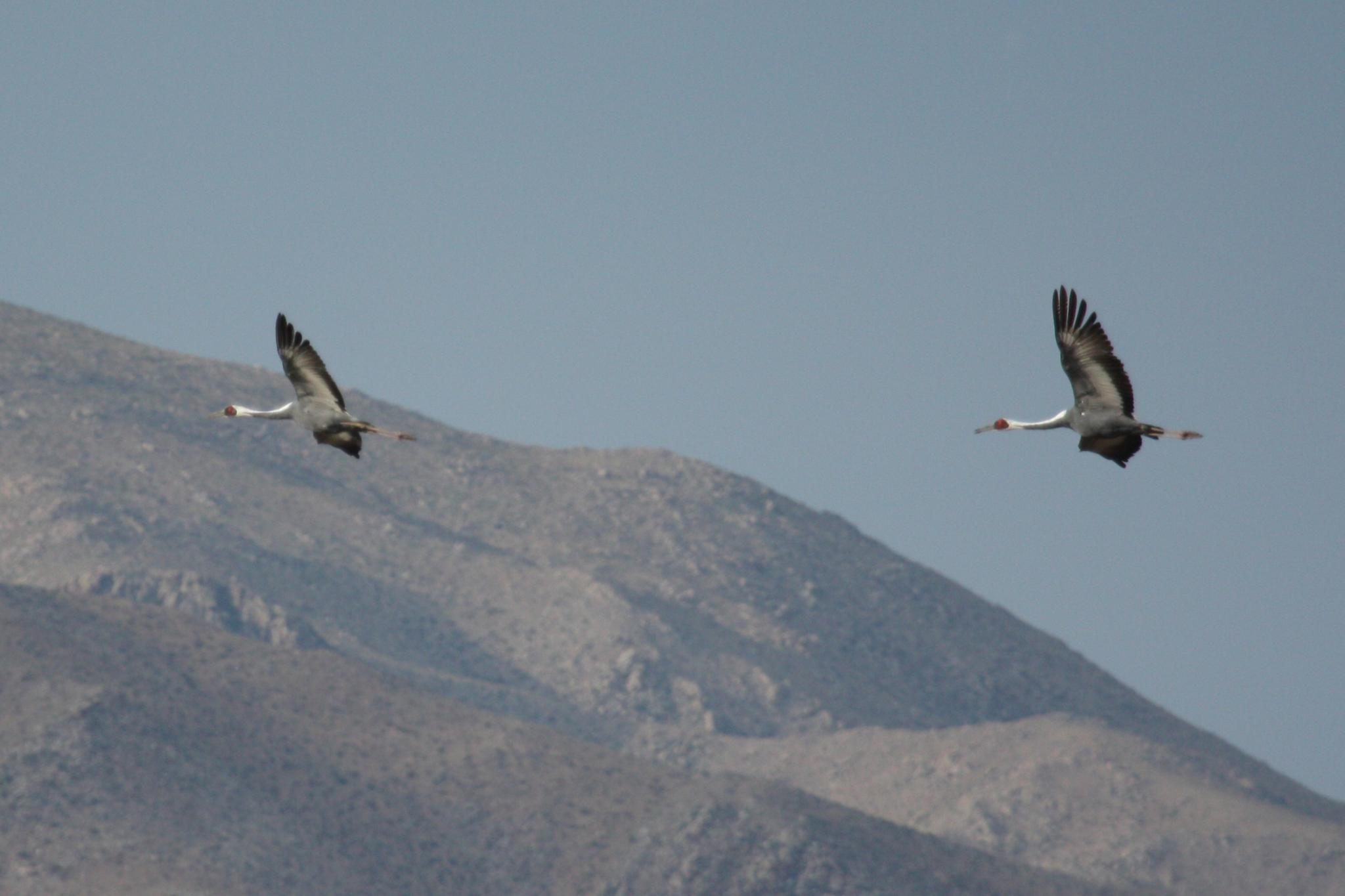 White-naped Cranes